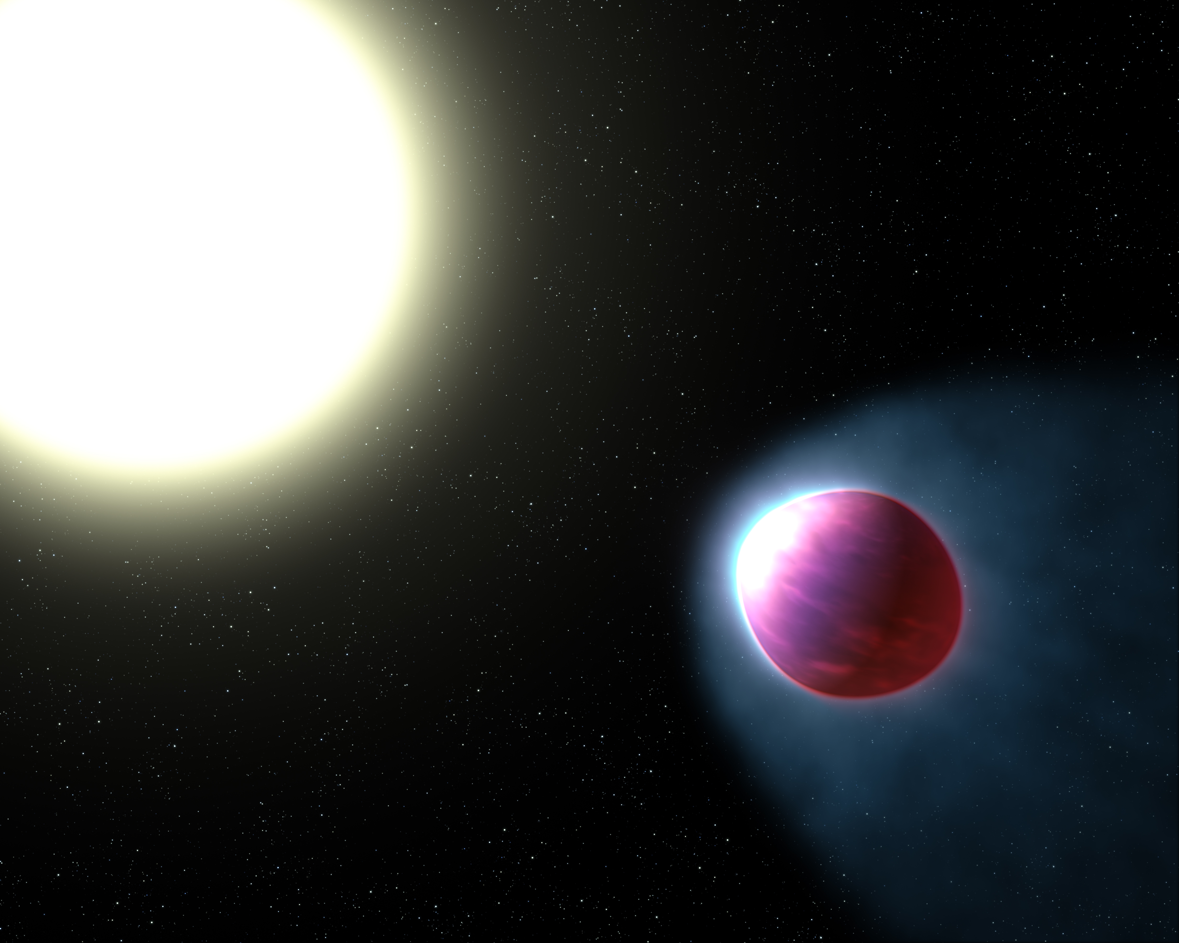 The top of the planet's atmosphere is heated to a blazing 2,500 degrees Celsius (4,600 Fahrenheit), hot enough to boil some metals. Image credit: NASA, ESA, and G. Bacon (STSci)